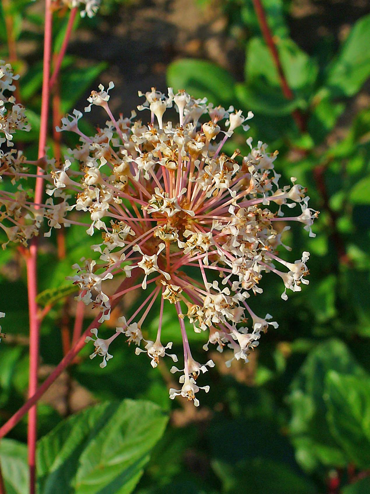 Ceanothus americanus, New Jersey Tea, inflorescence; Stutensee-Staffort, Germany.